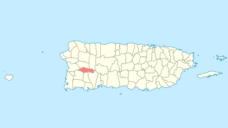 Municipal locator of Puerto Rico